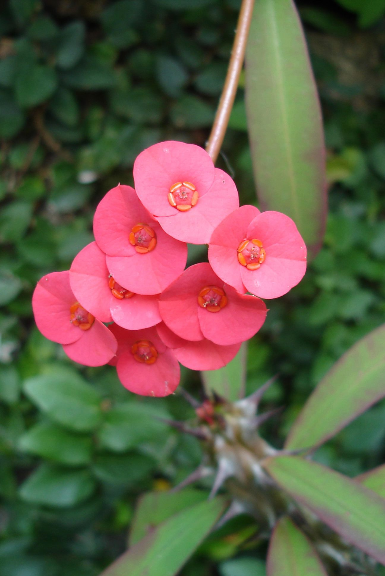 Crown of Thorns red flower